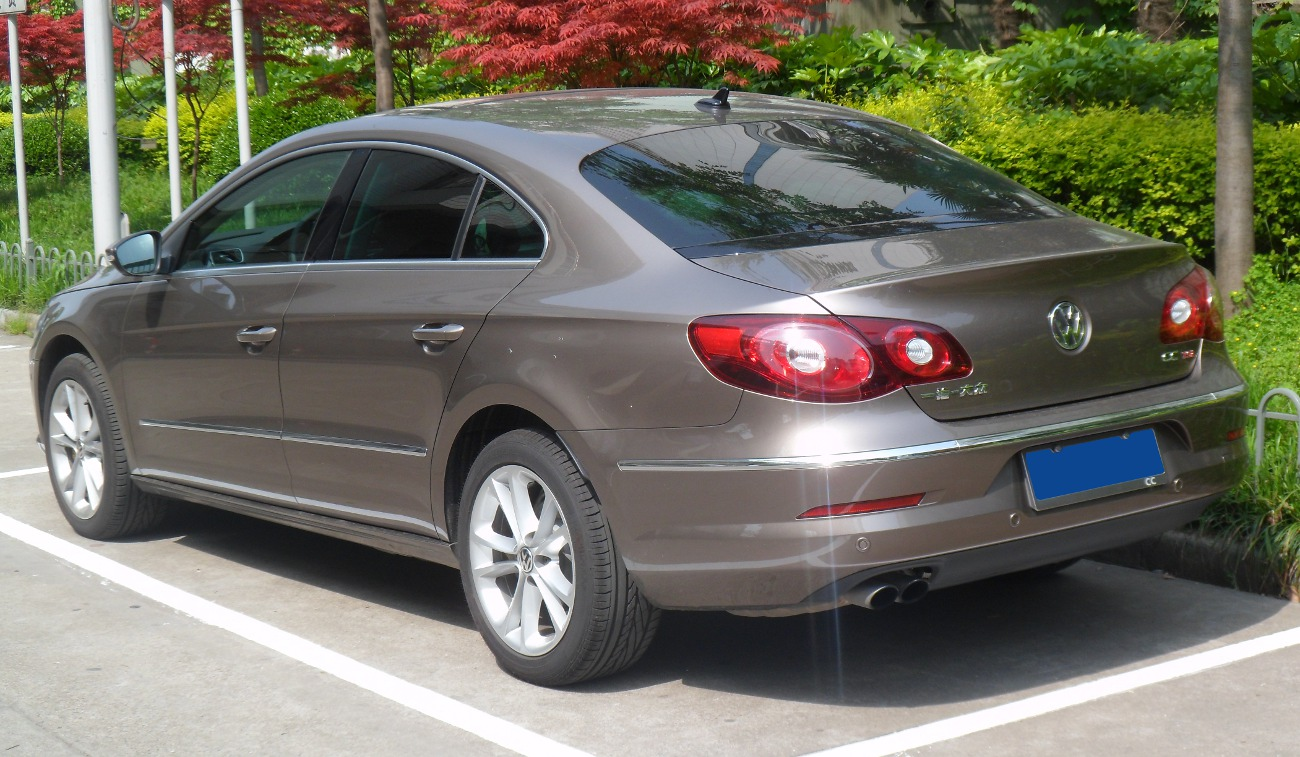 Volkswagen CC photographed in Shanghai, China.